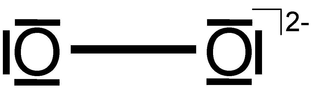 Das Peroxid-Ion